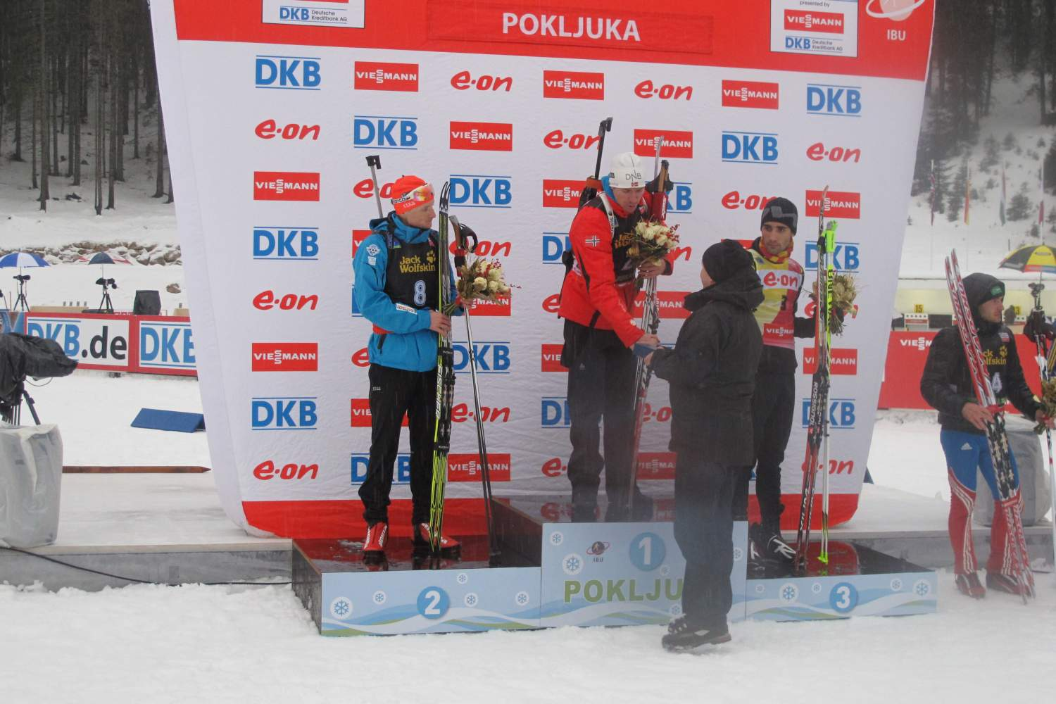 Pokljuka Biathlon World Cup